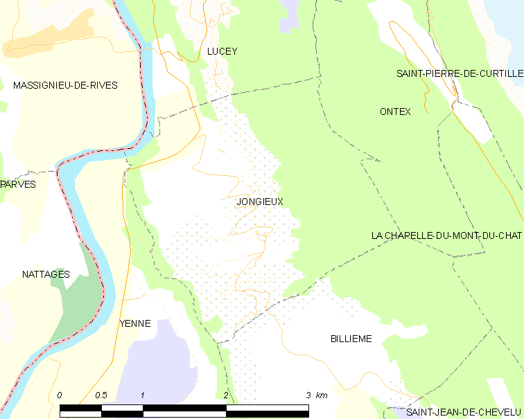 Map of French municipality